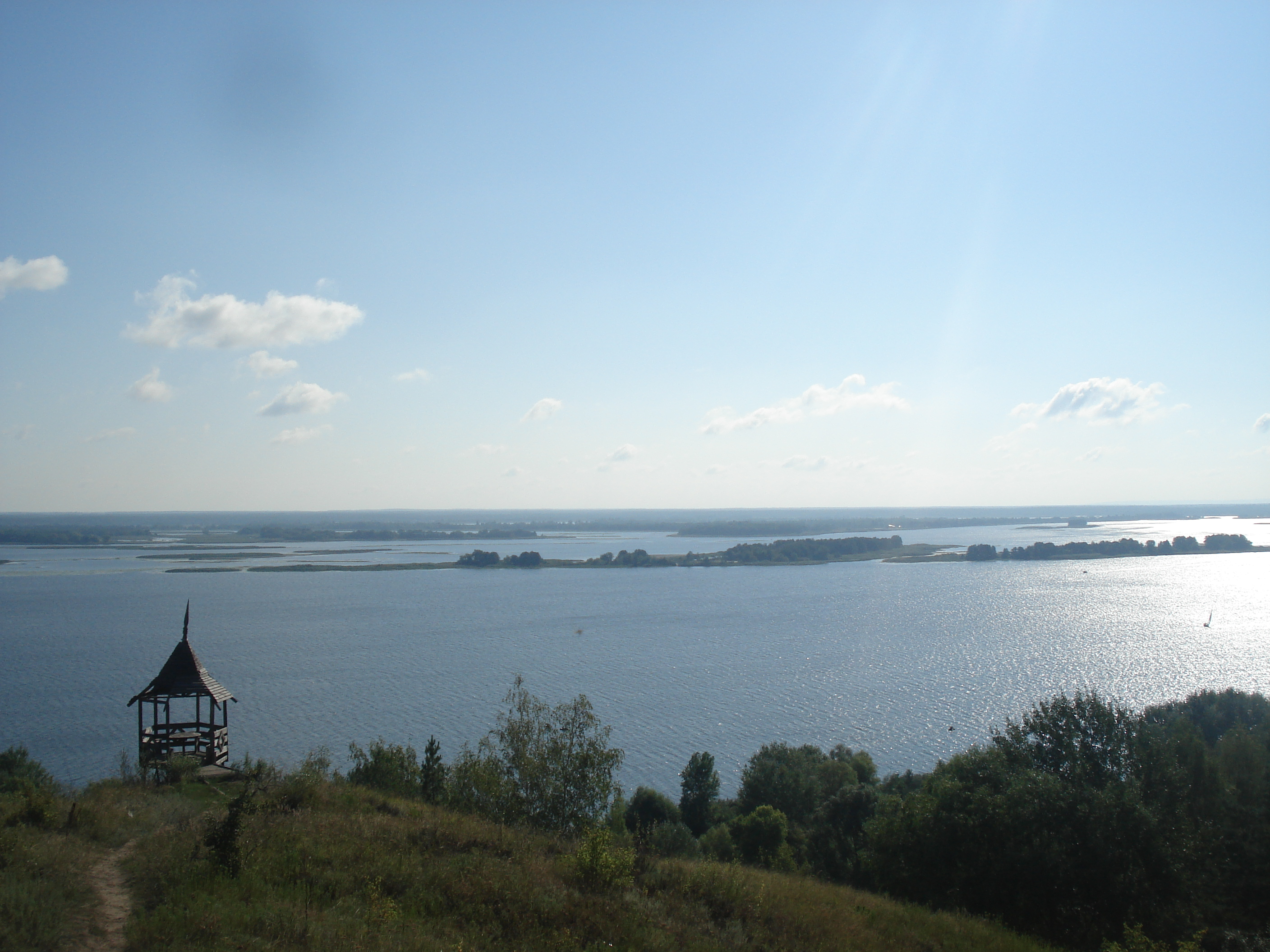 Dnieper near Staiky village (Kaharlyk Raion, Kyiv Oblast, Ukraine).